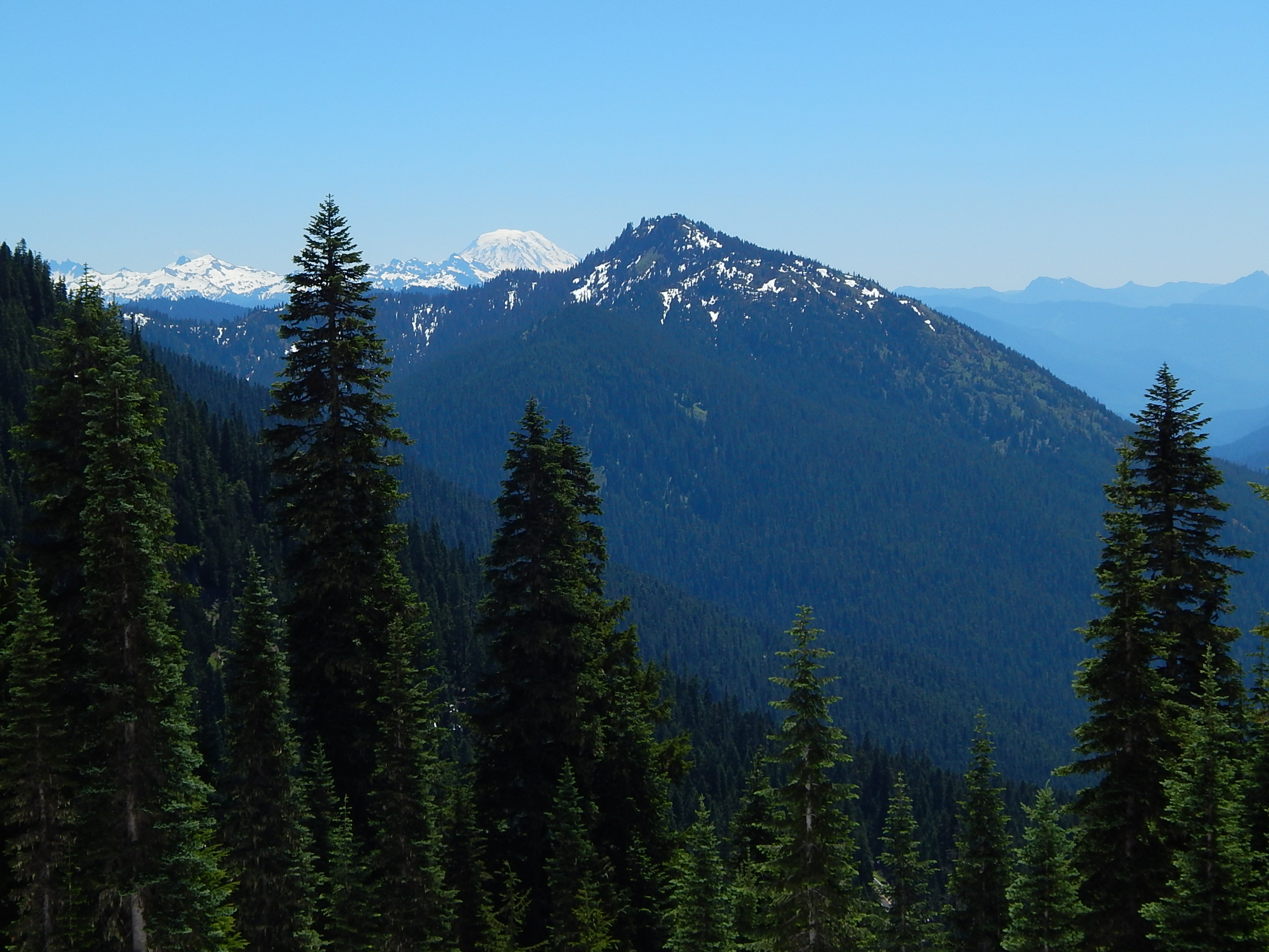 Shriner Peak in Mount Rainier National Park seen from Highway 410 switchbacks above Cayuse Pass